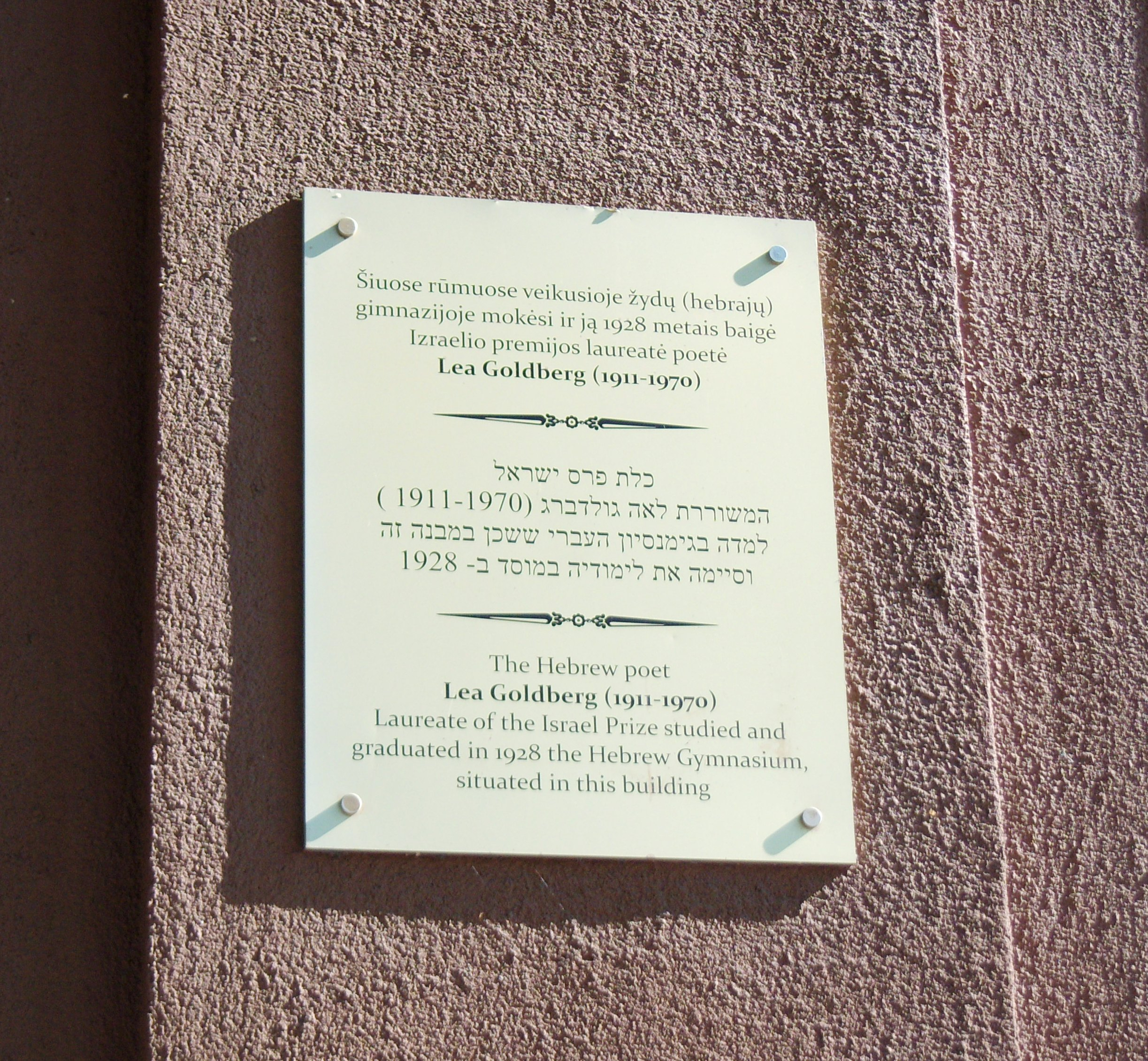 Commemorative plaque to Lea Goldberg on the former Jewish gymnasium, Karaliaus Mindaugo pr. 11, Kaunas, Lithuania